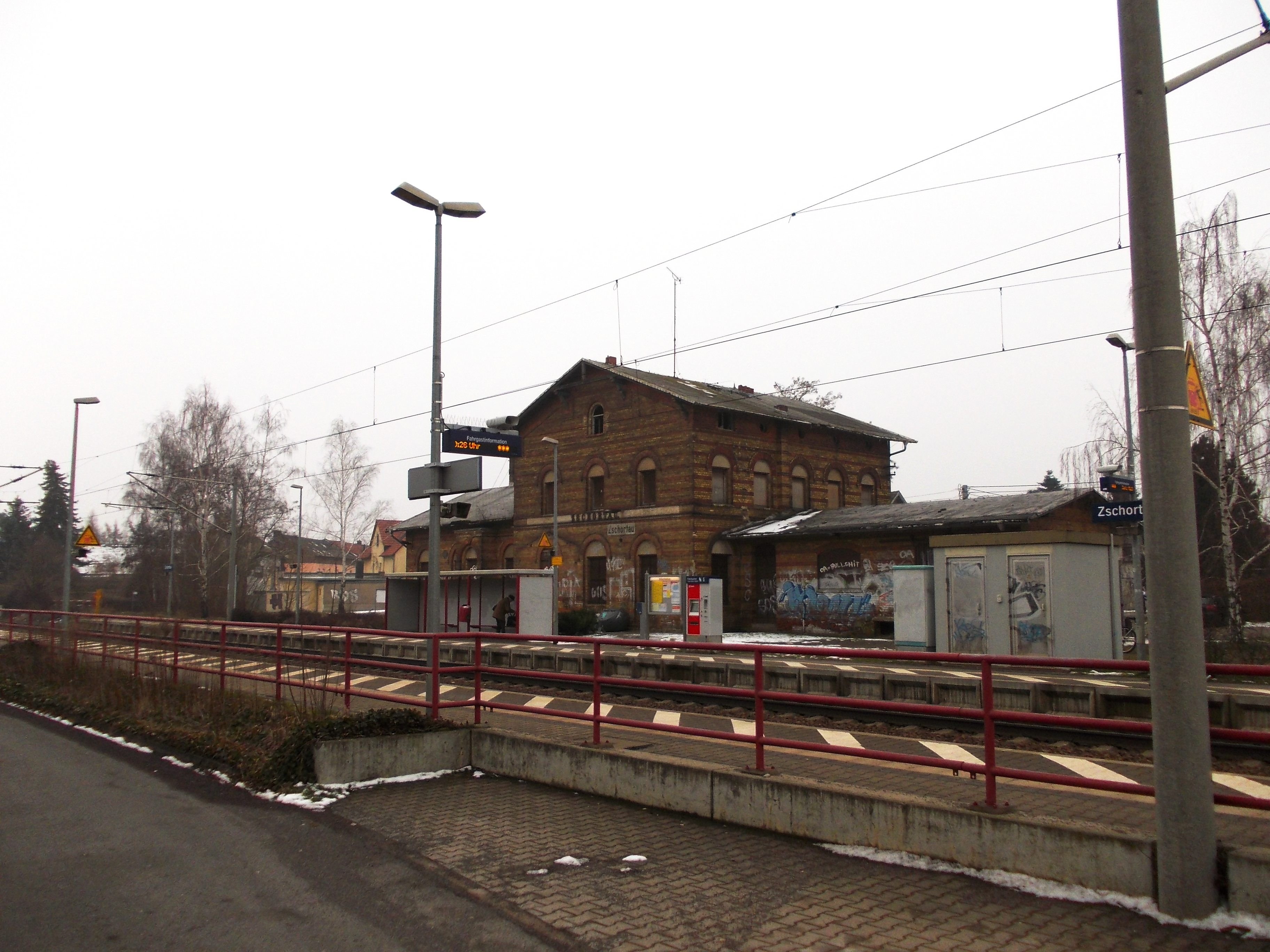 Zschortau train station (Rackwitz, Nordsachsen district, Saxony)